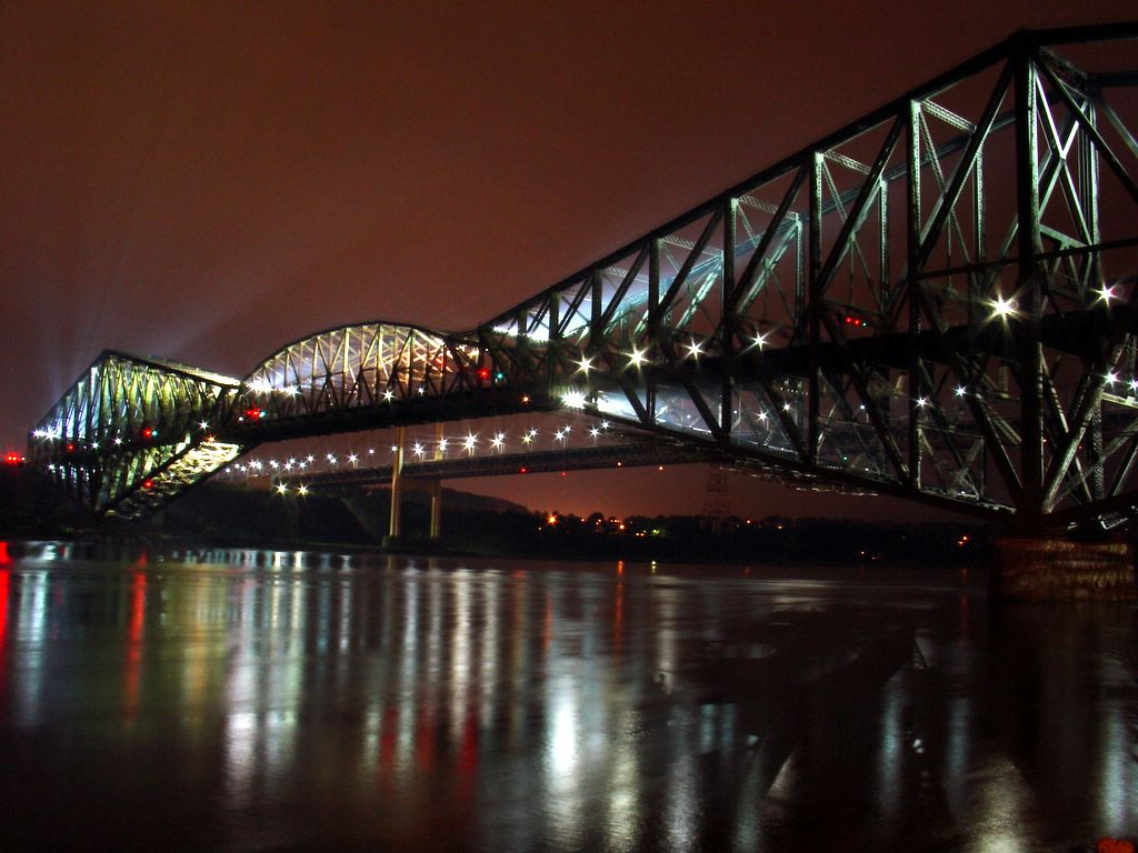 Please, have this description accessible to all by translating it in different languages.